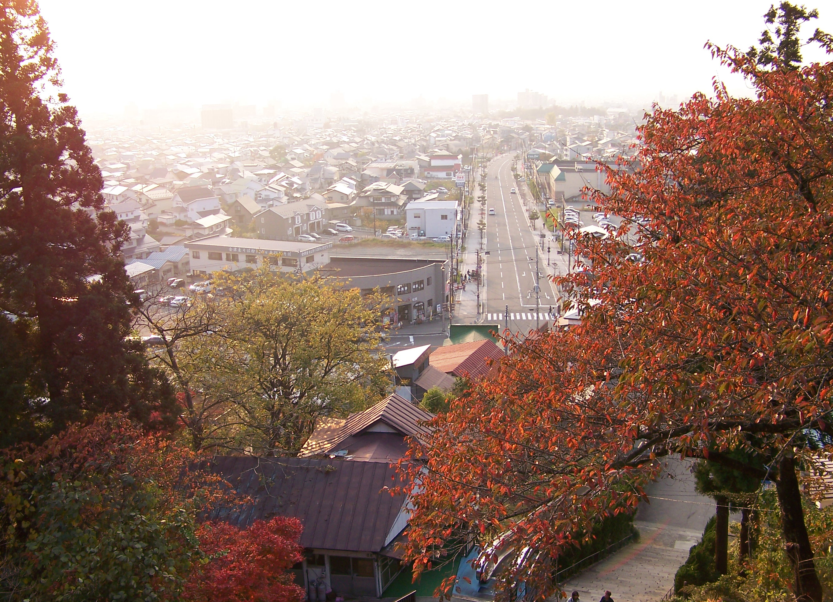 Aizu-Wakamatsu, Fukushima Prefecture, Japan, from Iimori Hill.